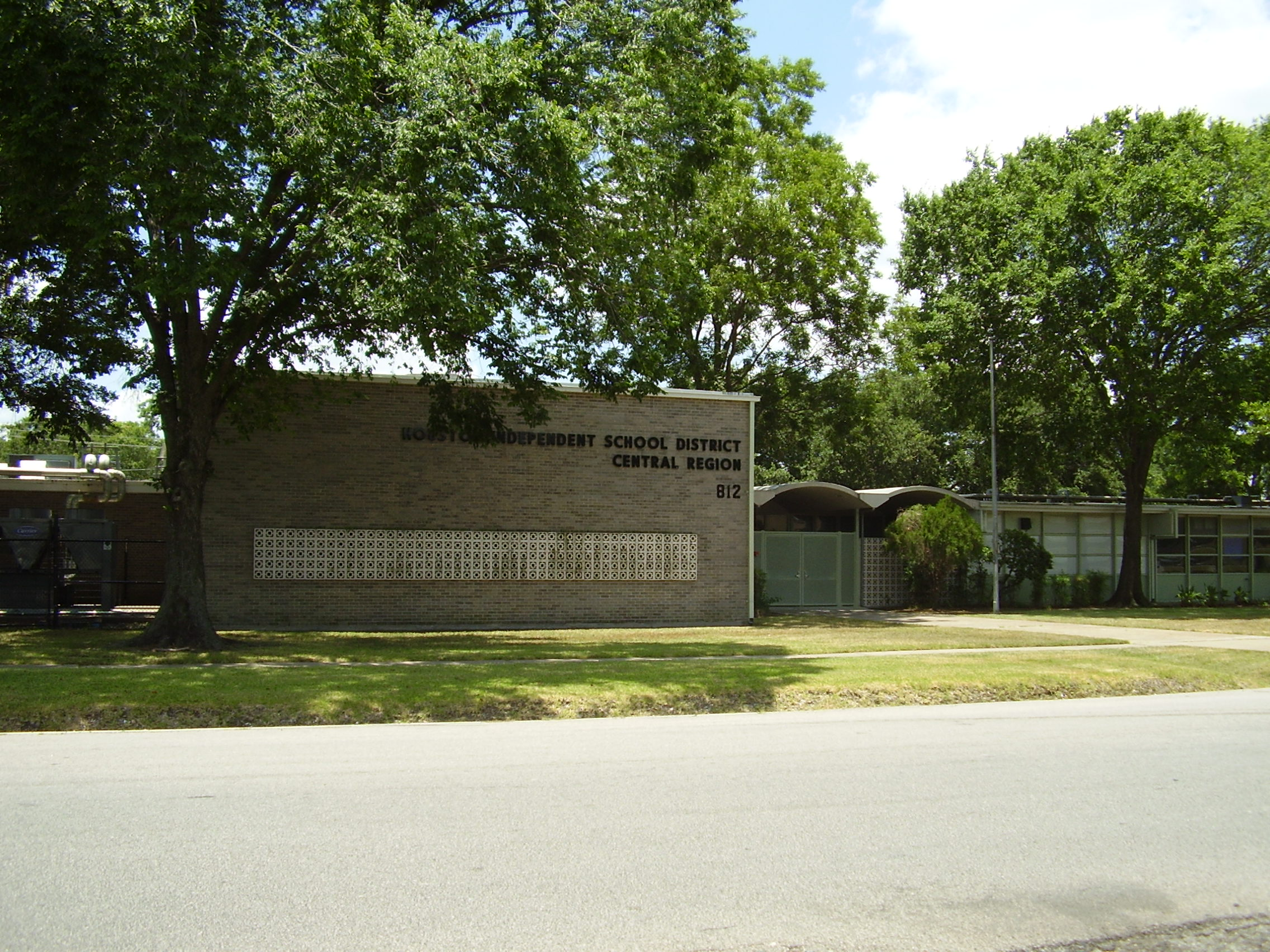 Houston Independent School District Central Region offices - Formerly Holden Elementary School, now the Energy Institute High School